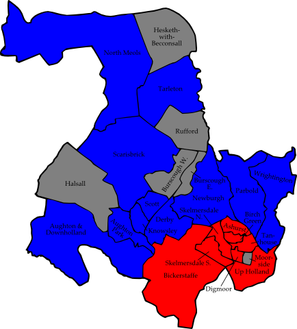 A map of the results of the 2007 West Lancashire Council election. Colour legend by wards won: Conservative party Labour party Wards in grey were not contested in 2007.